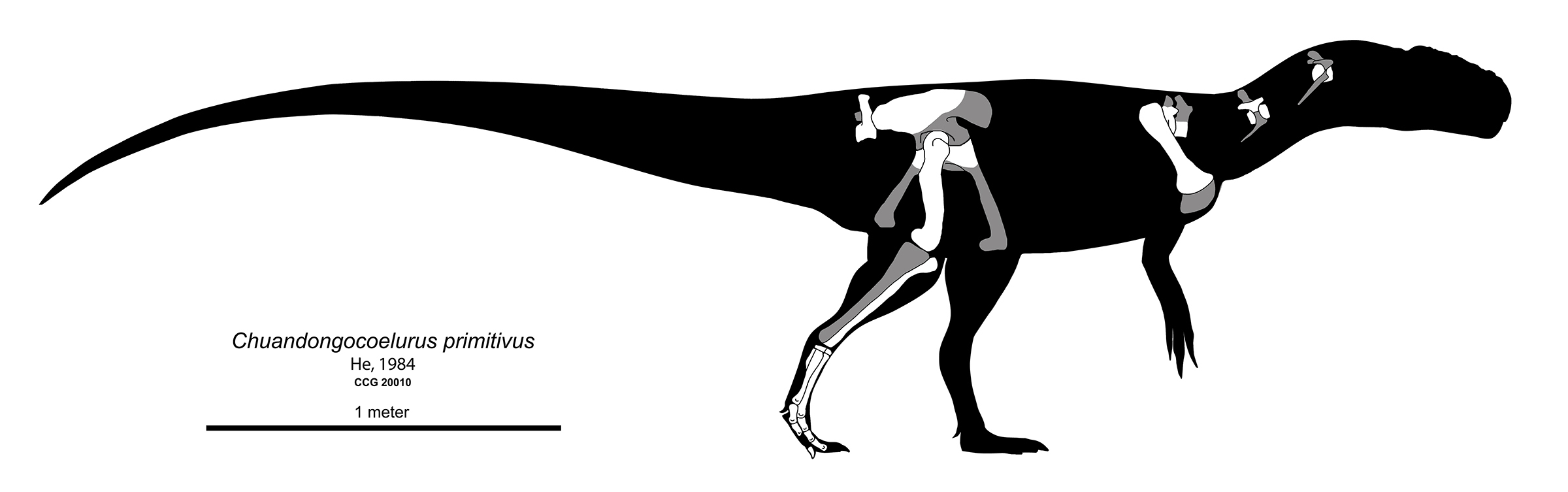 Skeletal diagram of Chuandongocoelurus primitivus